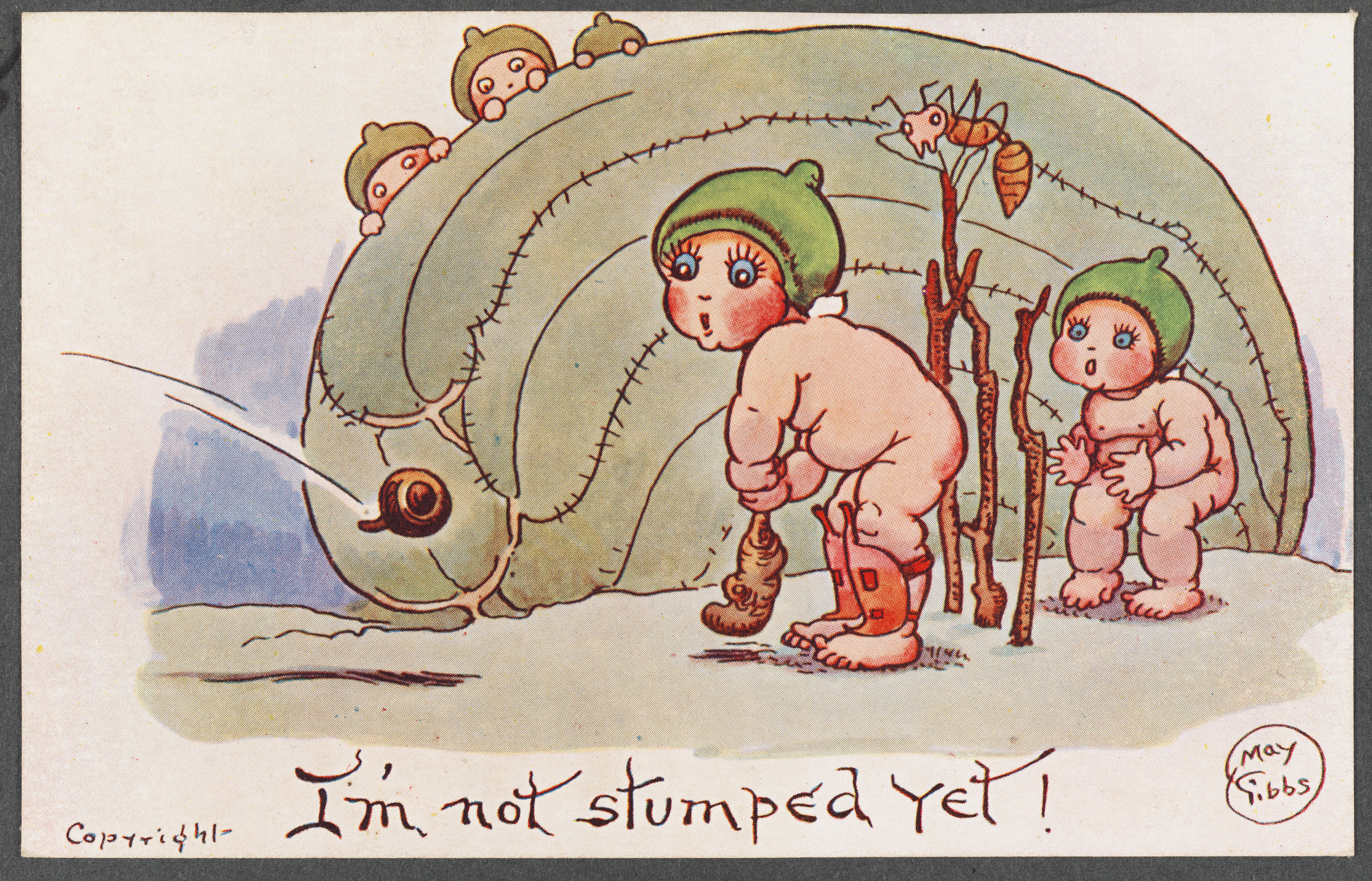 This postcard (which retailed for about three pence) was part of a set of cards which May designed for people to send to the troops who were serving overseas, hence their encouraging captions. All images © The Northcott Society and the Cerebral Palsy Alliance. Used with permission. Call number: PXD 304/18 Digital ID: a6053053r Format: original postcard Find more detailed information about this photograph: .au/delivery/DeliveryManagerServlet?dps... Search for more great images in the State Library's collections: .au/home From the collection of the State Library of New South Wales